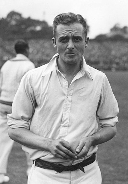 1926: Third test match at Headingley, Leeds, Yorkshire, England v Australia. G MacAuley.